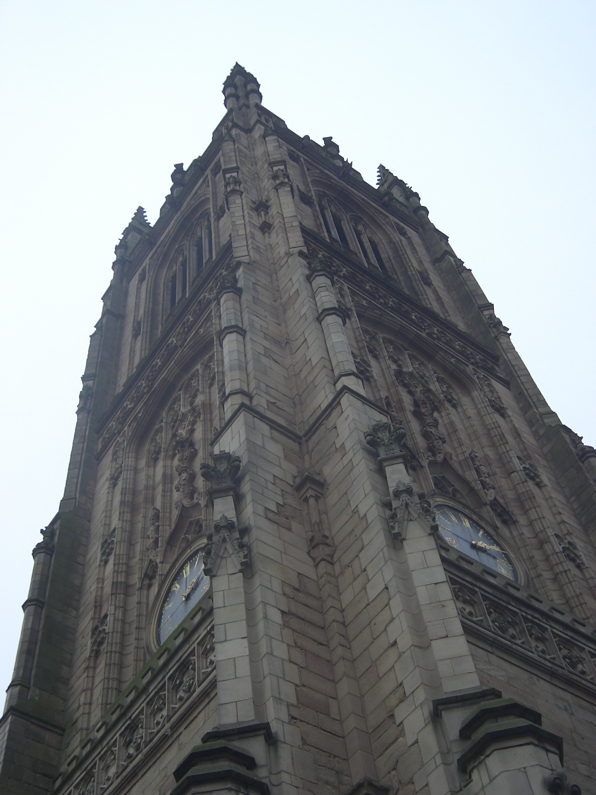 Derby Cathedral